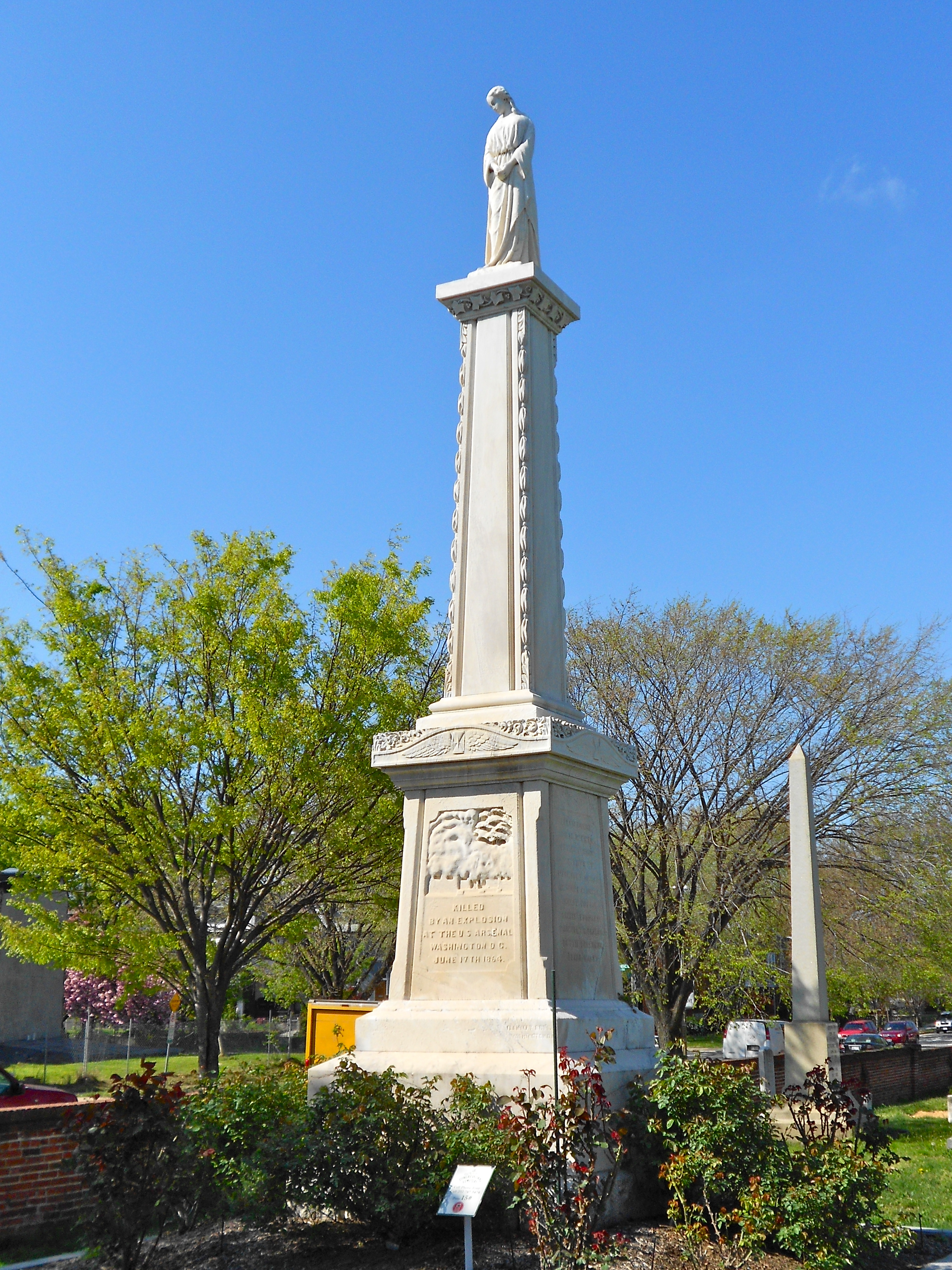 Monument to the victims of the 1864 explosion at the Washington, DC Arsenal. In the Congressional Cemetery, Washington, DC. Note that it is a grave, not a cenotaph (empty grave).